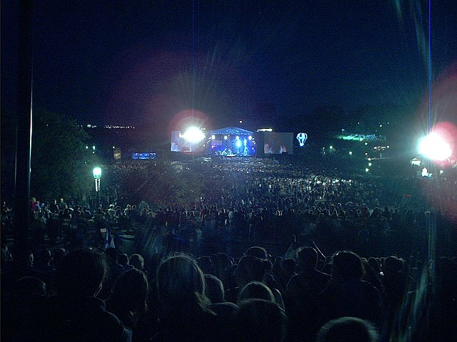 Free public concert in Quebec City, Quebec, on the eve of Saint-Jean-Baptiste Day, June 23, en:2006. The concert was held in Battlefield Park. Photo taken by Steve Karg.